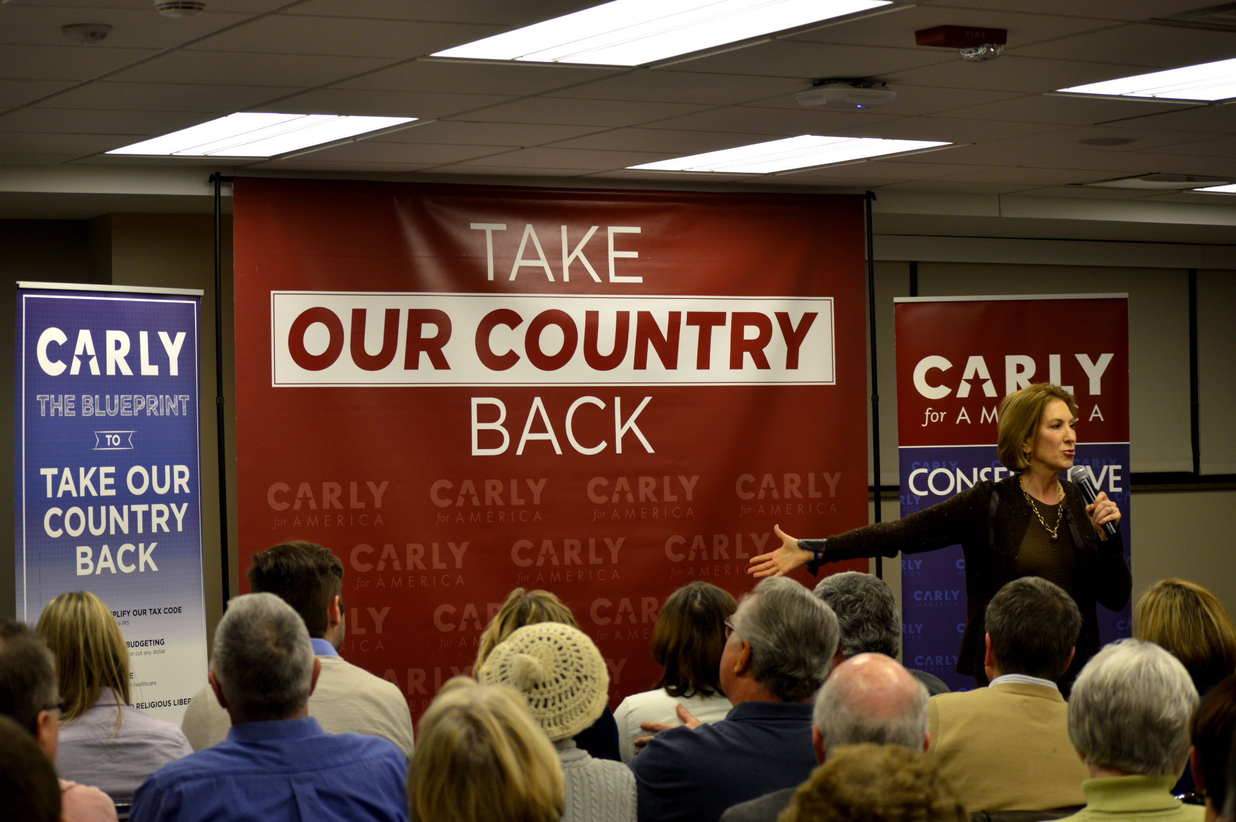 Republican presidential candidate Carly Fiorina speaks at a town hall at Iowa State University in Ames, Iowa on Saturday, Jan. 30, 2016. Mandatory credit to Alex Hanson if used elsewhere.